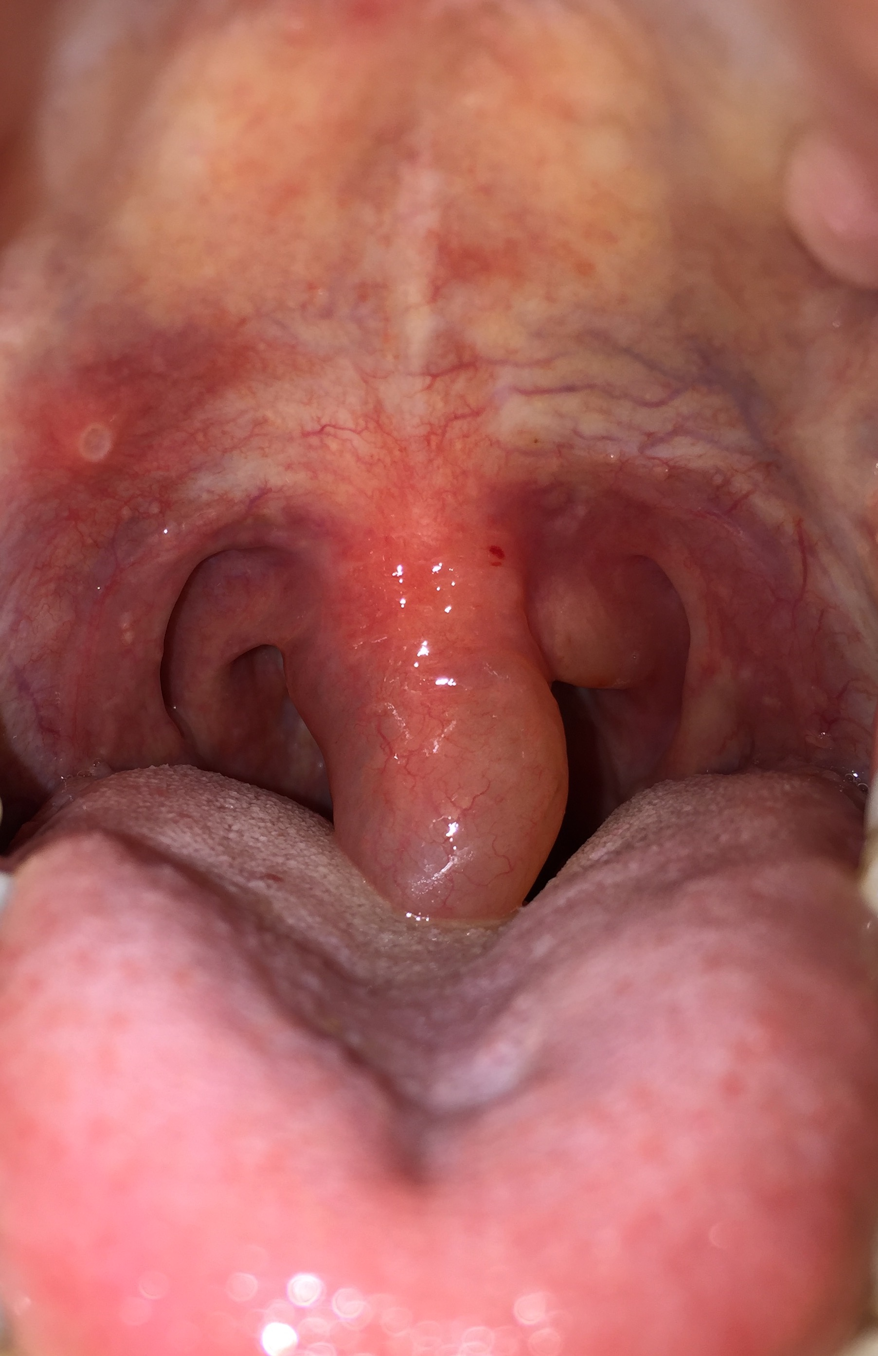 A swollen uvula, swelling in this case reduced in 13 hours